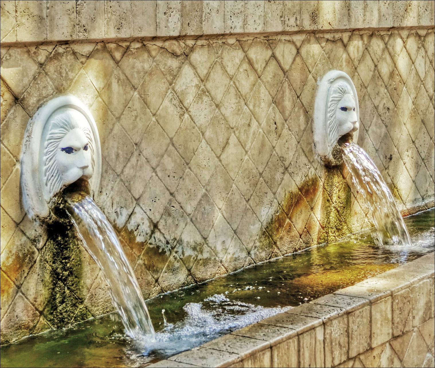 Mascarons of the Venetian fountain at Spili.